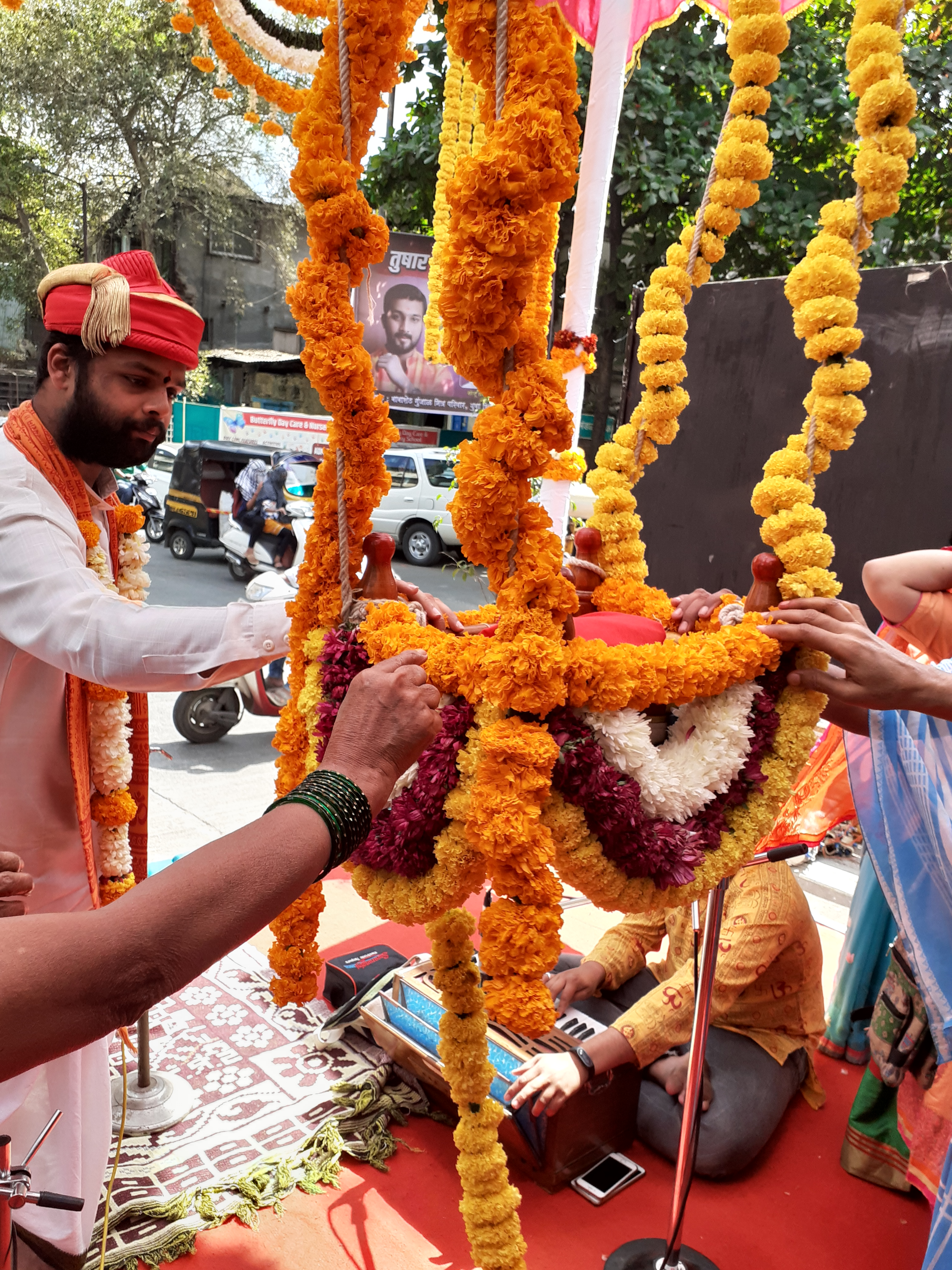 Ganesh jayanti Festival